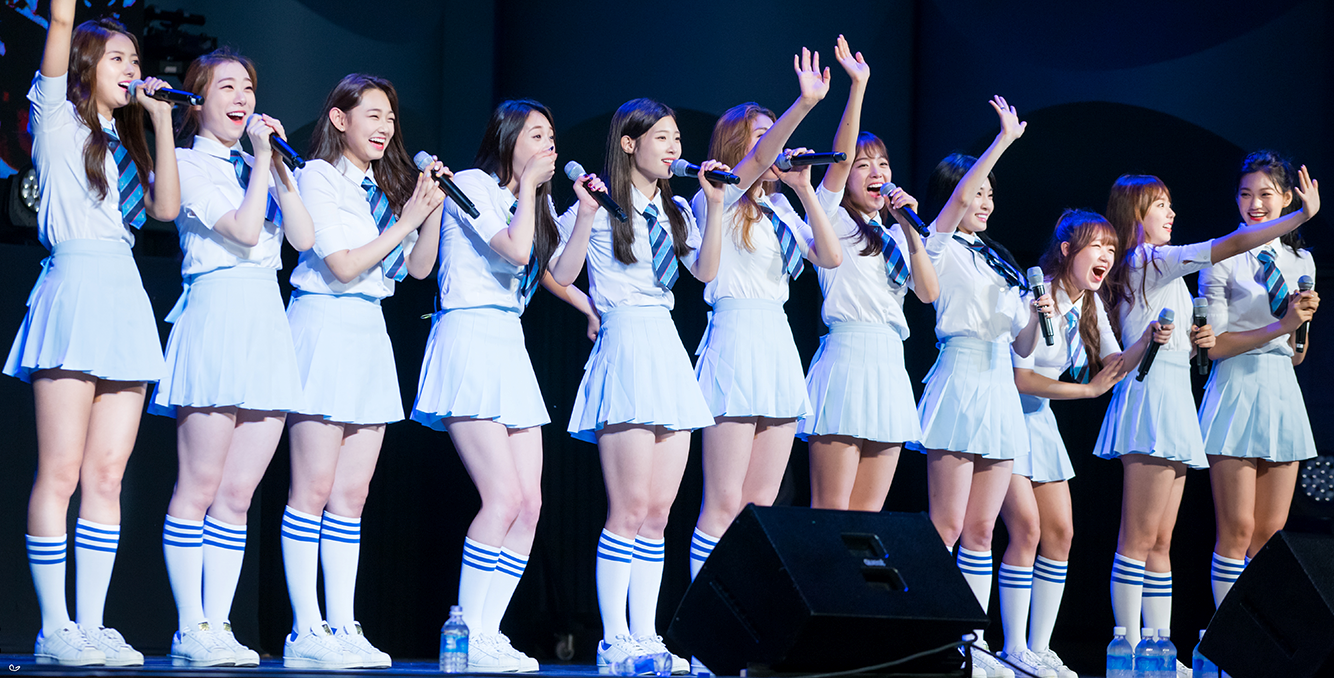 I.O.I performing at Seongnam Park concert